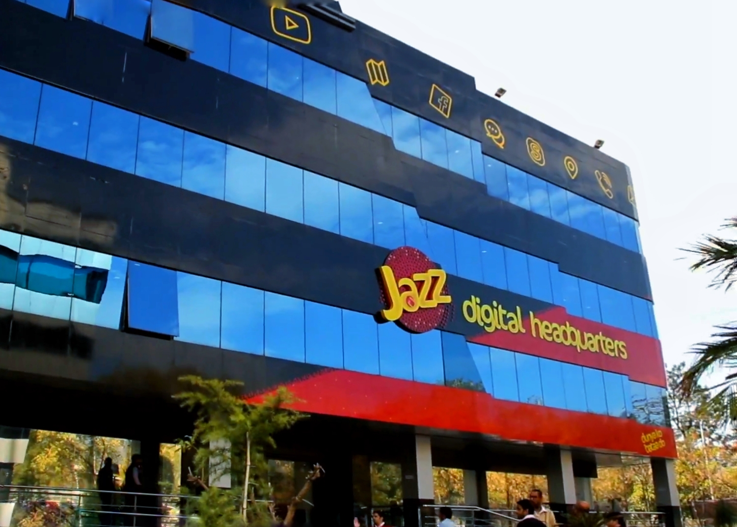 Jazz Headquarters Islamabad, Pakistan